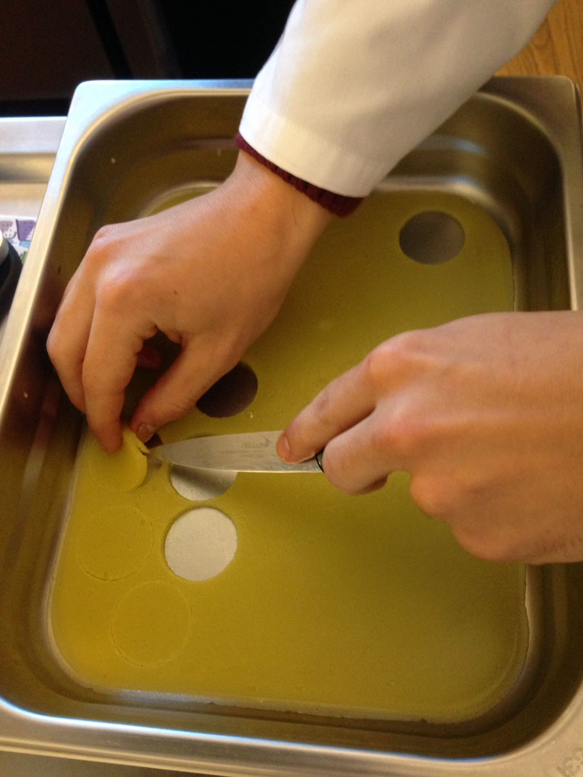 Gelatina d'oli